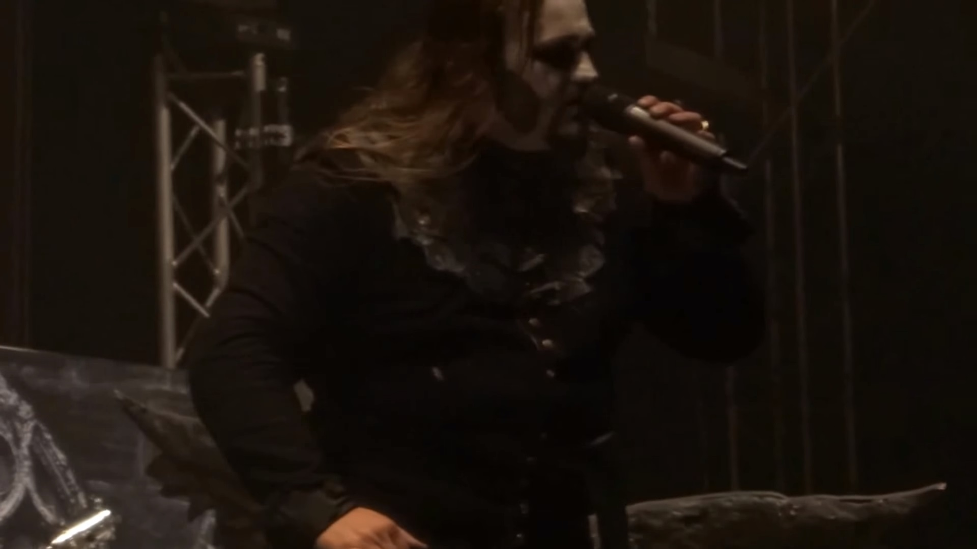 Powerwolf performing live at Out and Loud 2014.